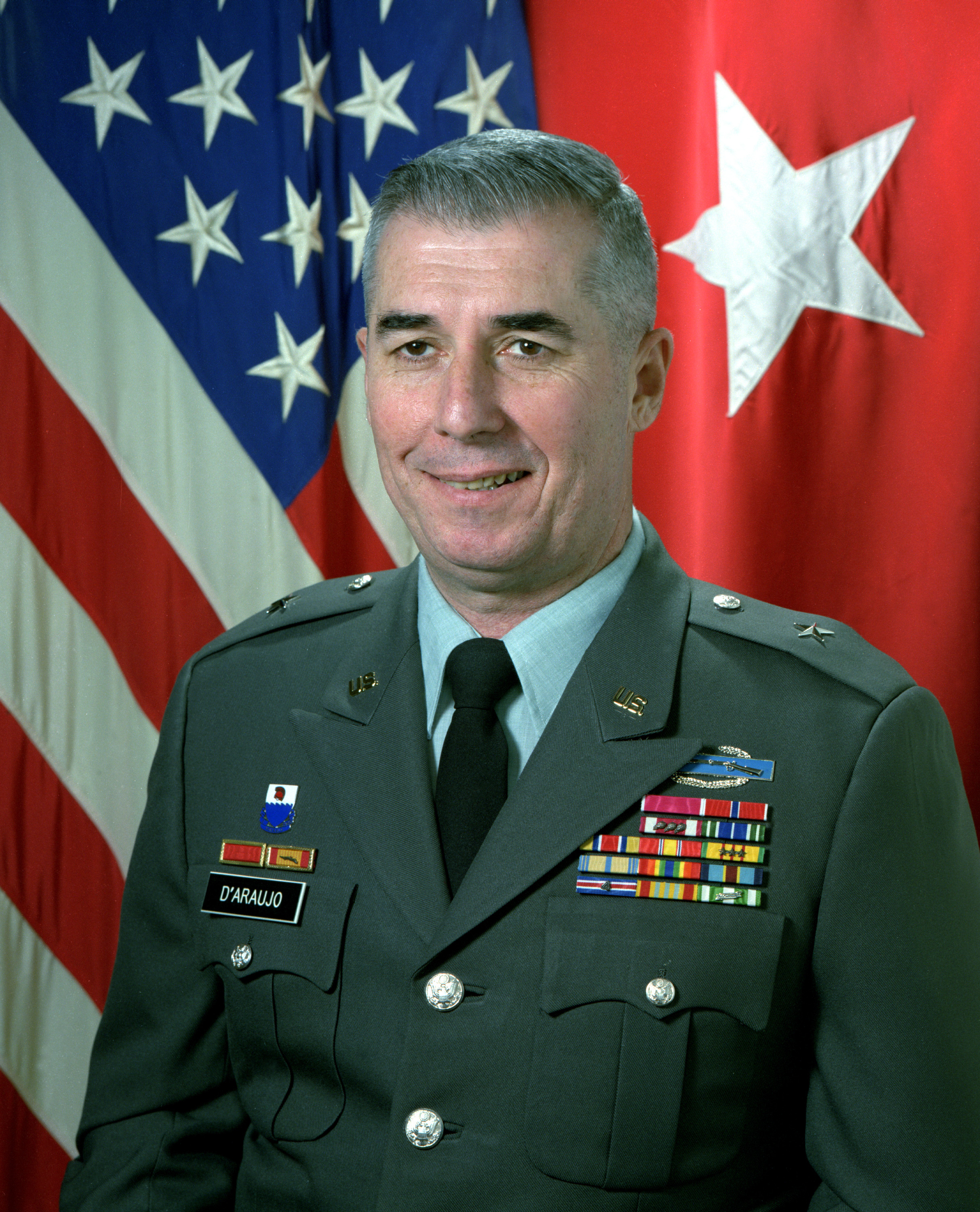 Brig. Gen. John R. D'Araujo, Jr.